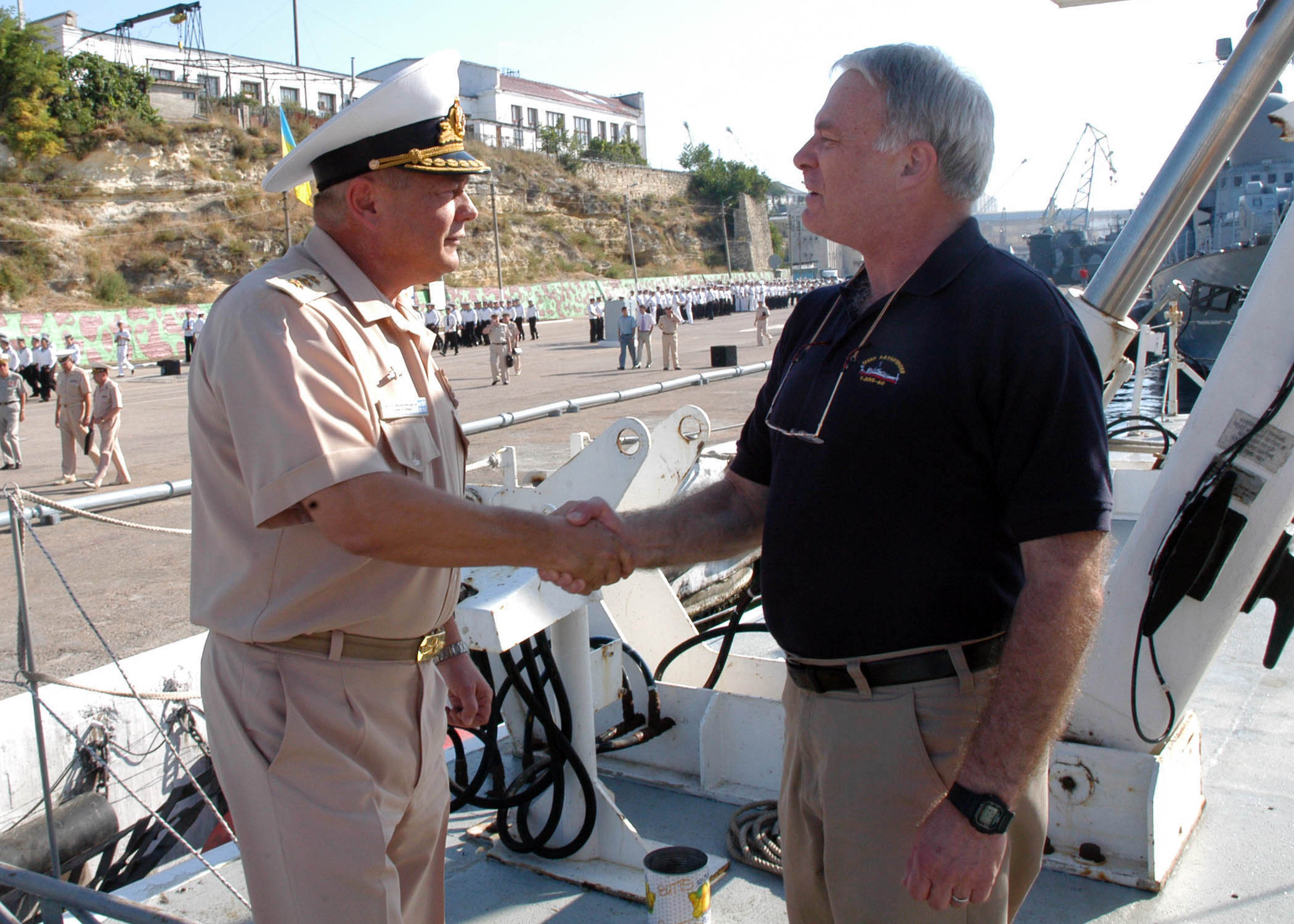 The Military Sealift Command oceanographic survey ship USNS Pathfinder's (T-AGS 60) civilian master Capt. Troy Erwin greets Ukrainian Navy Adm. Igor Tenukh before the ship's scheduled departure from Sevastopol.